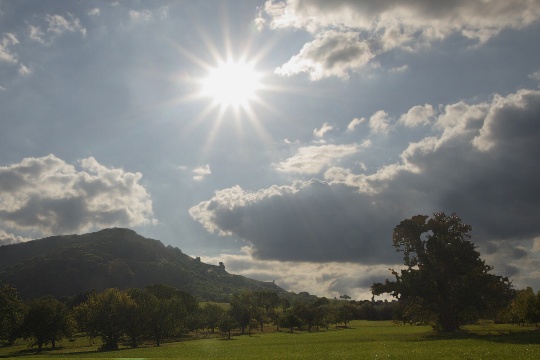 Jusi, eroded rest of the second largest volcano of 355 volcanoes of the „Urach-Kirchheimer Vulkangebiet“, also known as the "Swabian volcano" (wikipedia in German). These volcanoes were active only in Miocene; almost all of them are of the type phreatomagmatic eruption. But the Maars, which filled with water, have long ago dried out and eroded. In the landscape of the Middle Swabian Alb and its foreland the morphology is either full of small depressions of the Swabian plateau, all of them remnants of volcanic diatremes, or – in the foreland - heavely eroded buttes, where rests of the eroded White Jurassic and scree often covers the volcanic piperests. The mountain is a nature reserve.